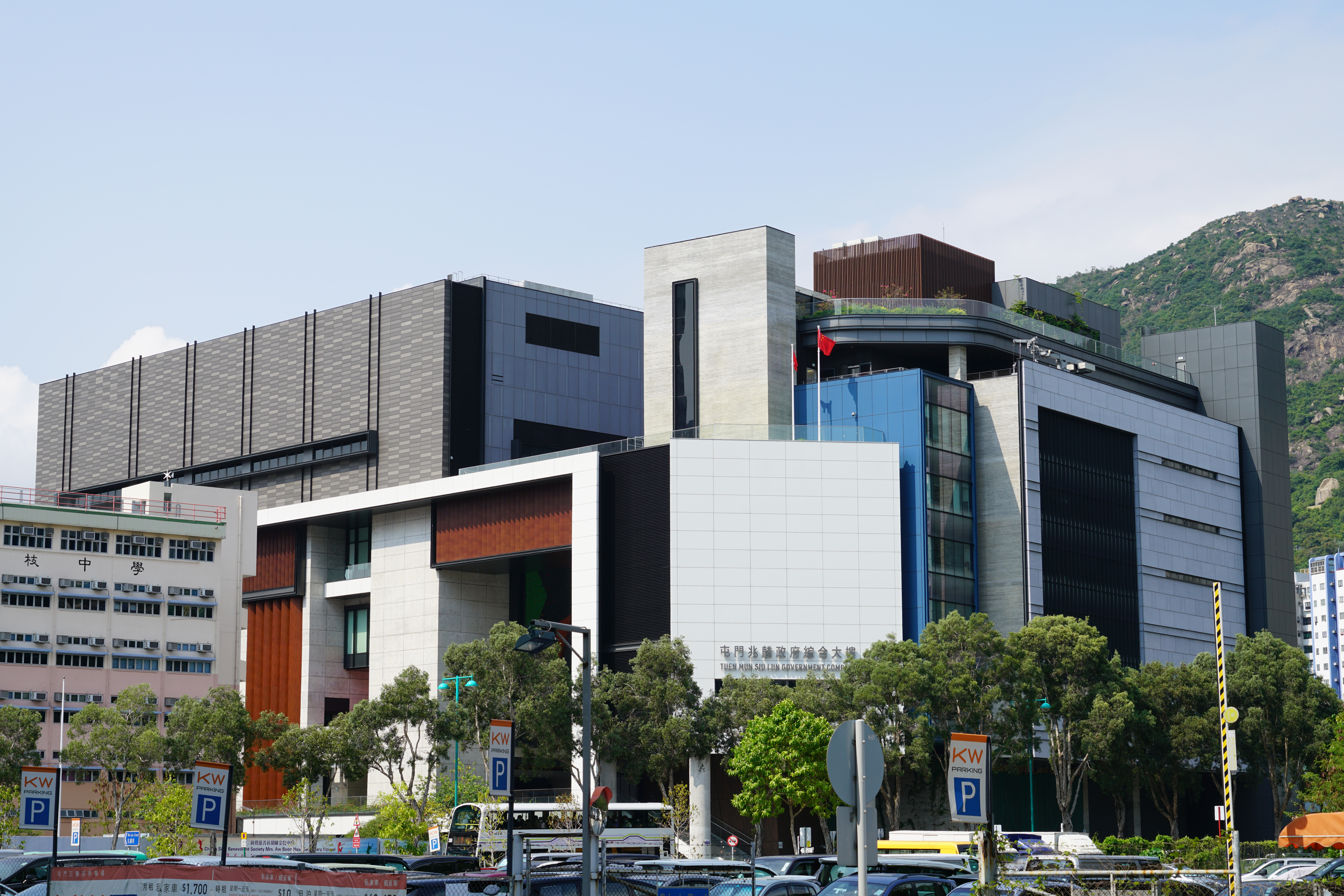 Tuen Mun Siu Lun Government Complex, Hong Kong.